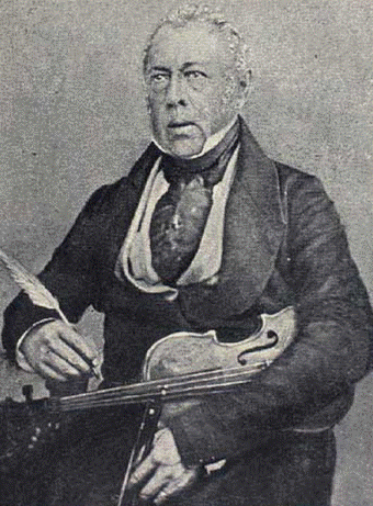 Diplomat and composer Rudolph Bay (1791-1856)